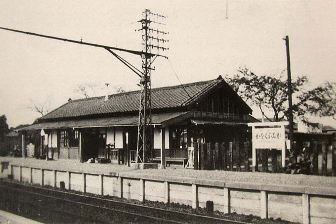 Kamifukuoka Station on the Tobu Tojo Line